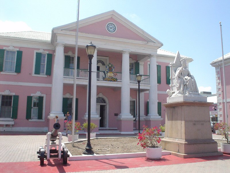 Parliament of the Bahamas building — in Nassau, the Bahamas.